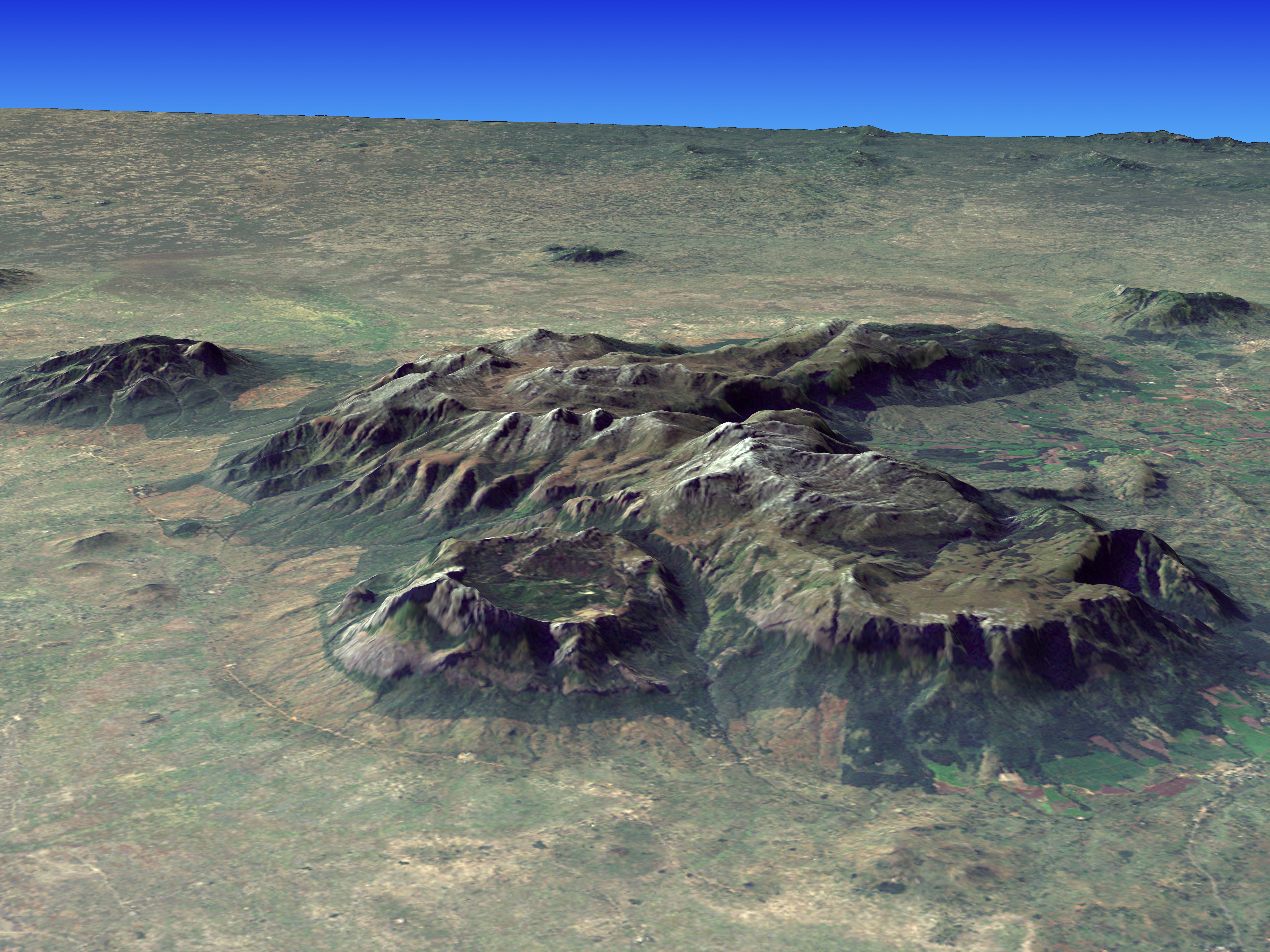 Composite image of Mount Mulanje, Malawi. The image was created by merging imagery from the Landsat 7 satellite’s Enhanced Thematic Mapper Plus (ETM+) instrument with elevation data from the Shuttle Radar Topography Mission (SRTM). This true-color image was created by combining the red, green, and blue wavelengths (ETM+ bands 3, 2, and 1). The resulting image was then draped over a visualization of the SRTM data with no vertical exaggeration. The ETM+ scene was acquired on May 26, 2002, while the elevation data were collected by the STRM instrument during its flight on the Space Shuttle Endeavour in February 2000.